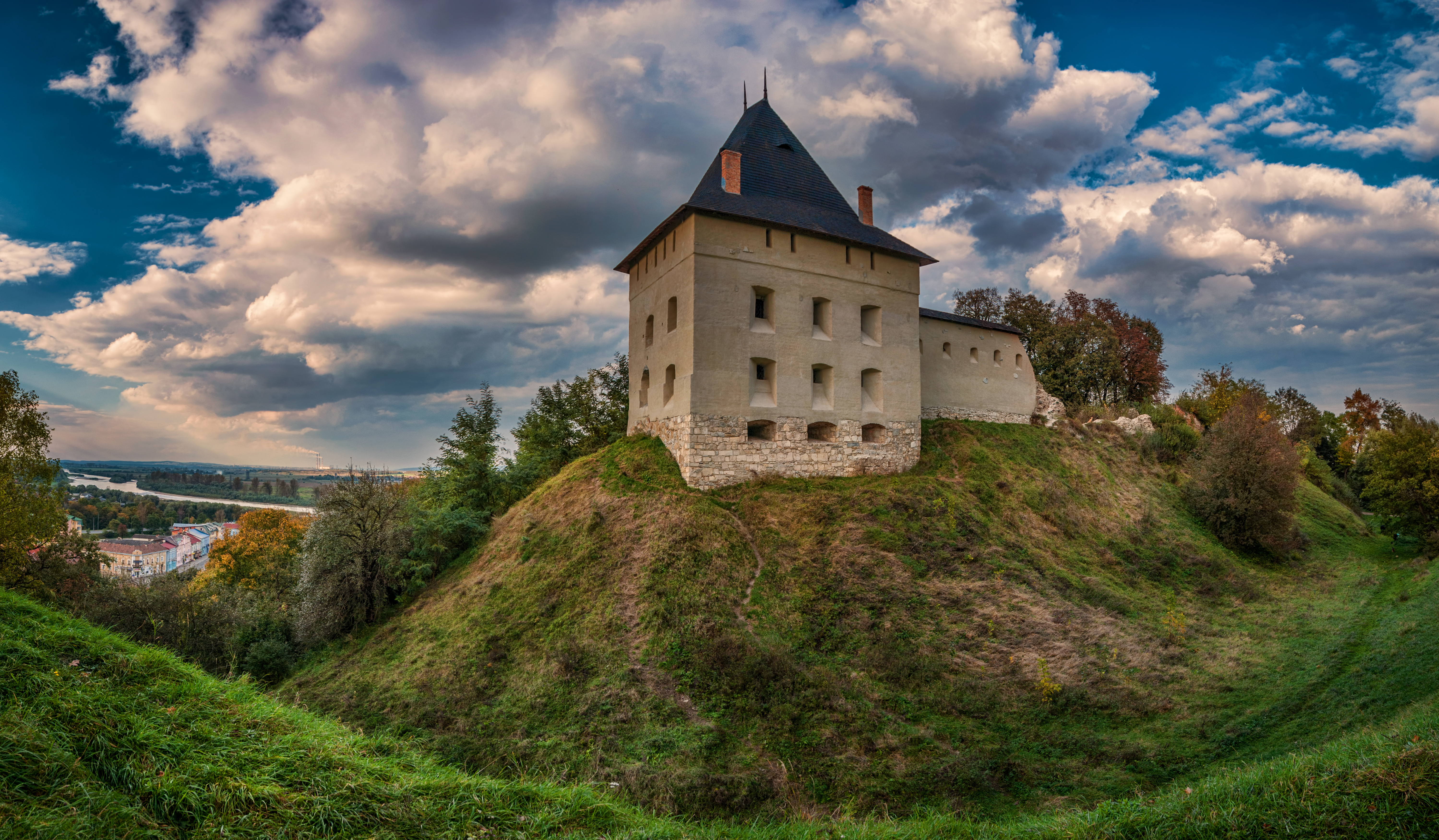 Halych Castle of the XIV–XVII century (architectural monument of national significance). Ivano-Frankivsk Oblast, Halych